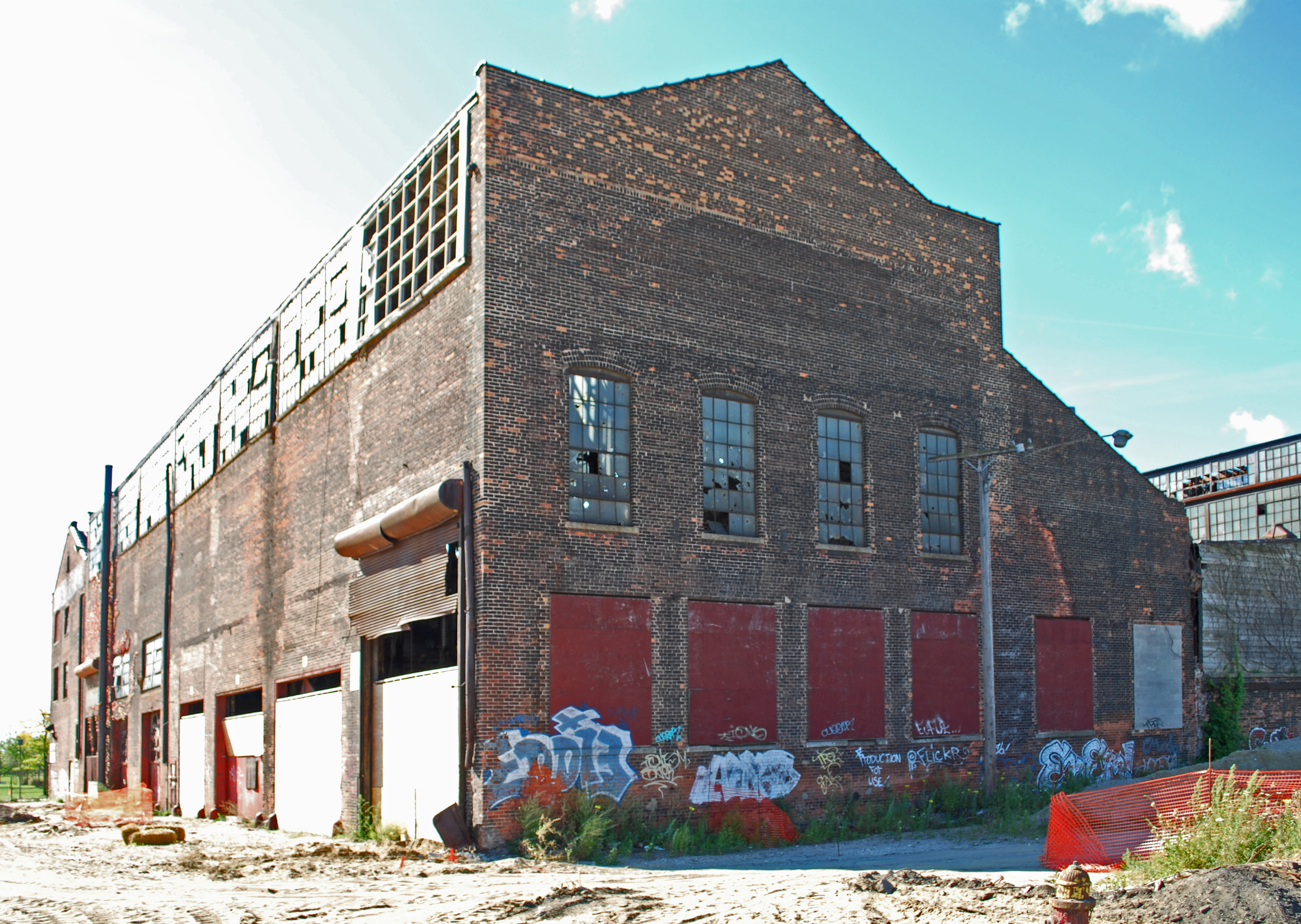 Detroit Dry Dock Engine Works Foundry